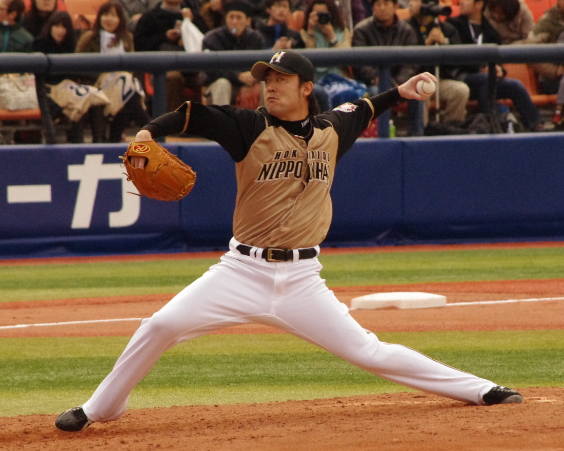 Yuya Ishii, pitcher of the Hokkaido Nippon-Ham Fighters, at Yokohama Stadium.